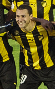 Peñarol player Sebastián Cristóforo posing for cameras before the start of the group phase game between Peñarol and Vélez Sarsfield in the Centenario stadium in Montevideo, Uruguay.